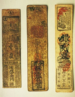 Banknotes in Imai Town